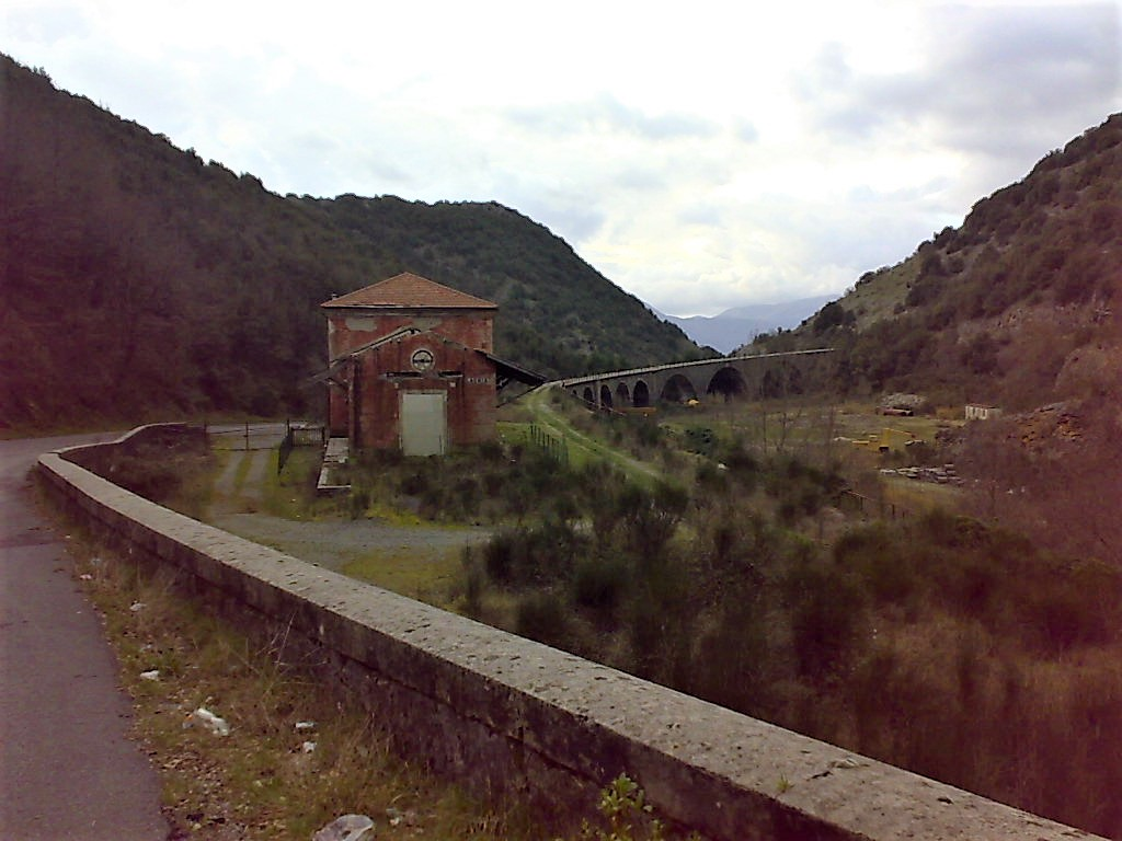 The old railway station in Lauria in a state of degradation and abandonment